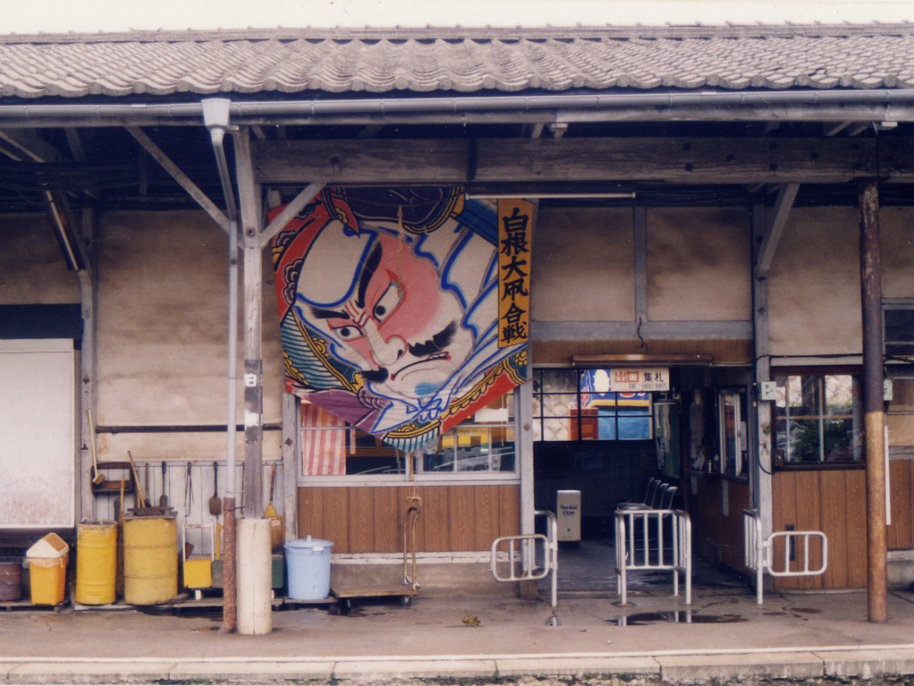 Shirone Station of Niigata Kotsu Railway, which was abolished on 5 April 1999. When this photograph was taken, the Shirone Giant Kite Battle have been taking place. A big kite has been displayed on the side of the wicket of the station.